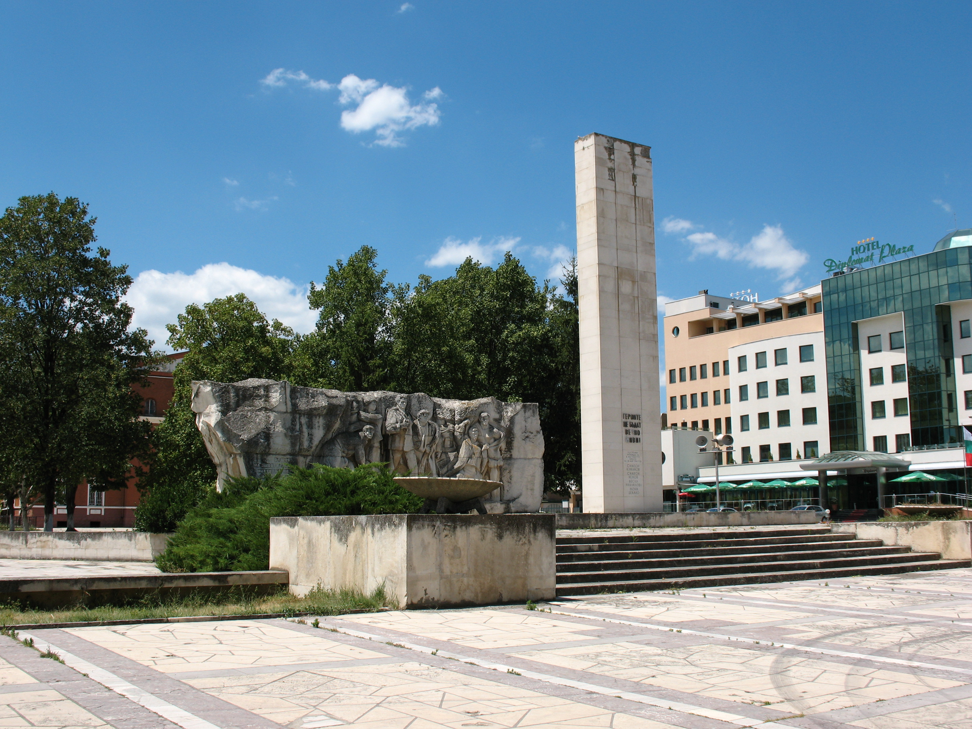 Partisans' monument in the centre of Lukovit, Bulgaria